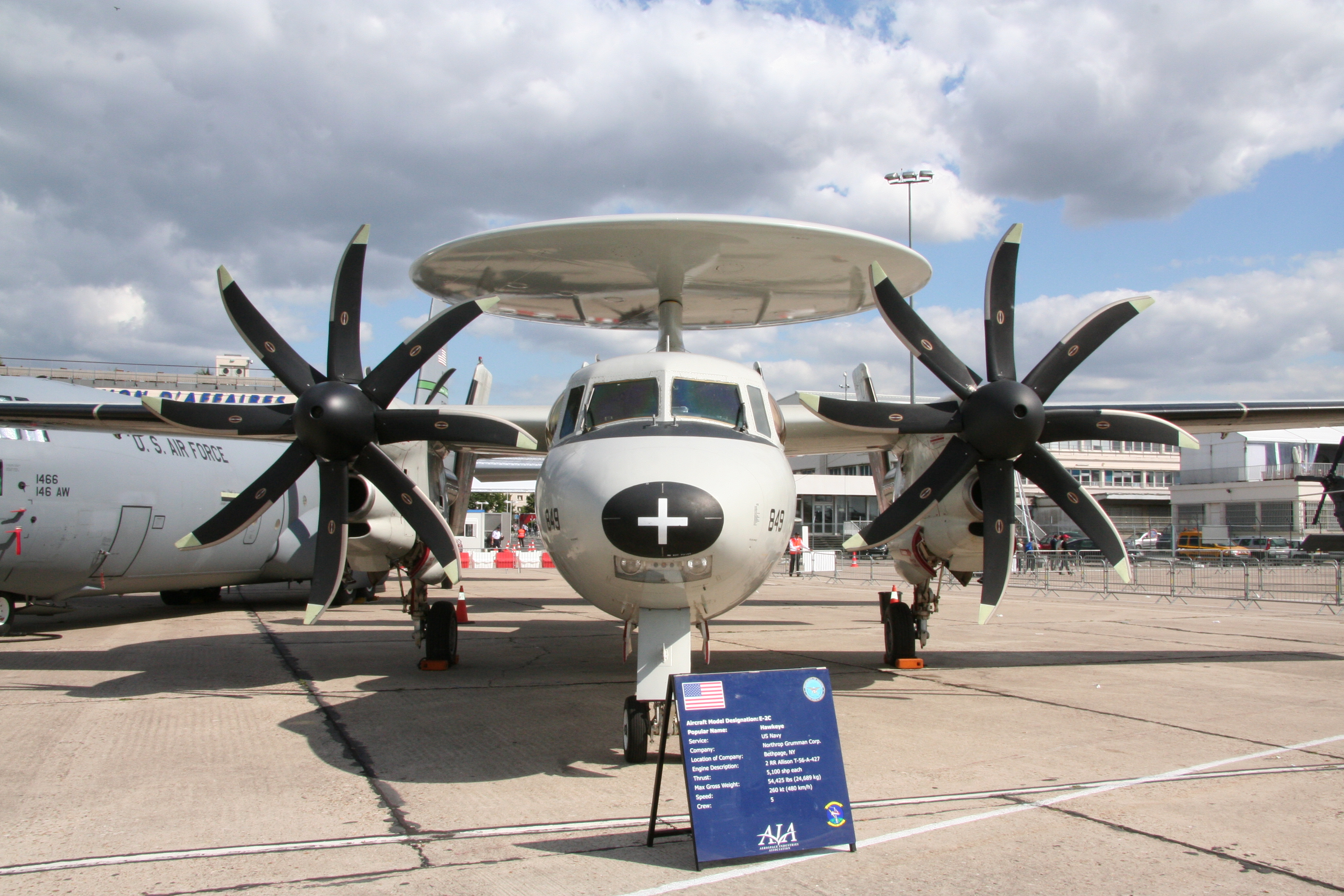 Grumman E-2 Hawkeye - Paris Air Show 2009